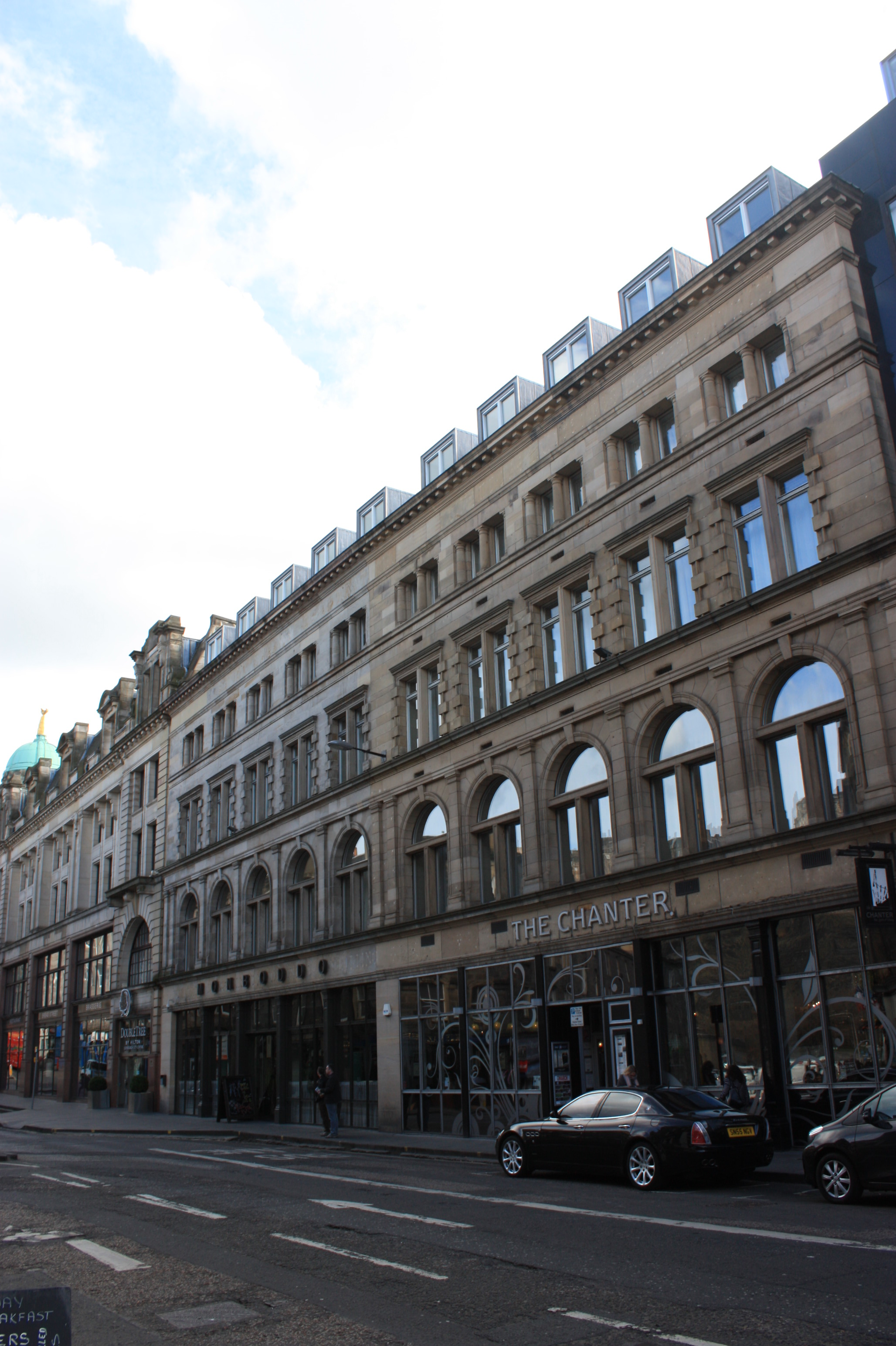 28-32 Bread Street, Edinburgh by John McLachan